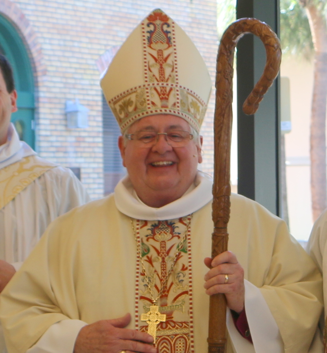 Ordination of Chase Dumont Ackerman, Robert Charles Douglas, Daniel James Lemley, Margaret Louise Sullivan and Christian Michael Wood.